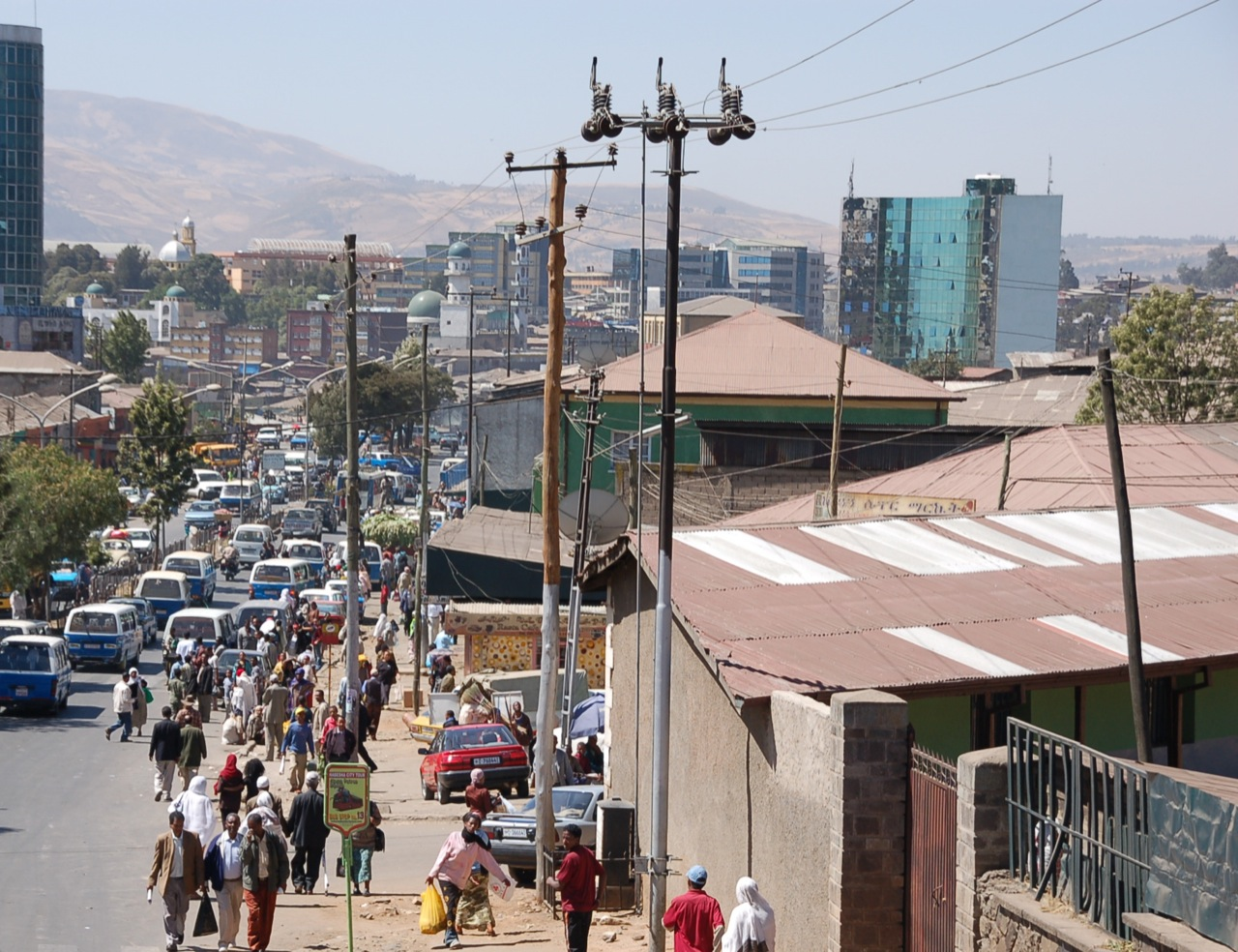 Addis Abeba